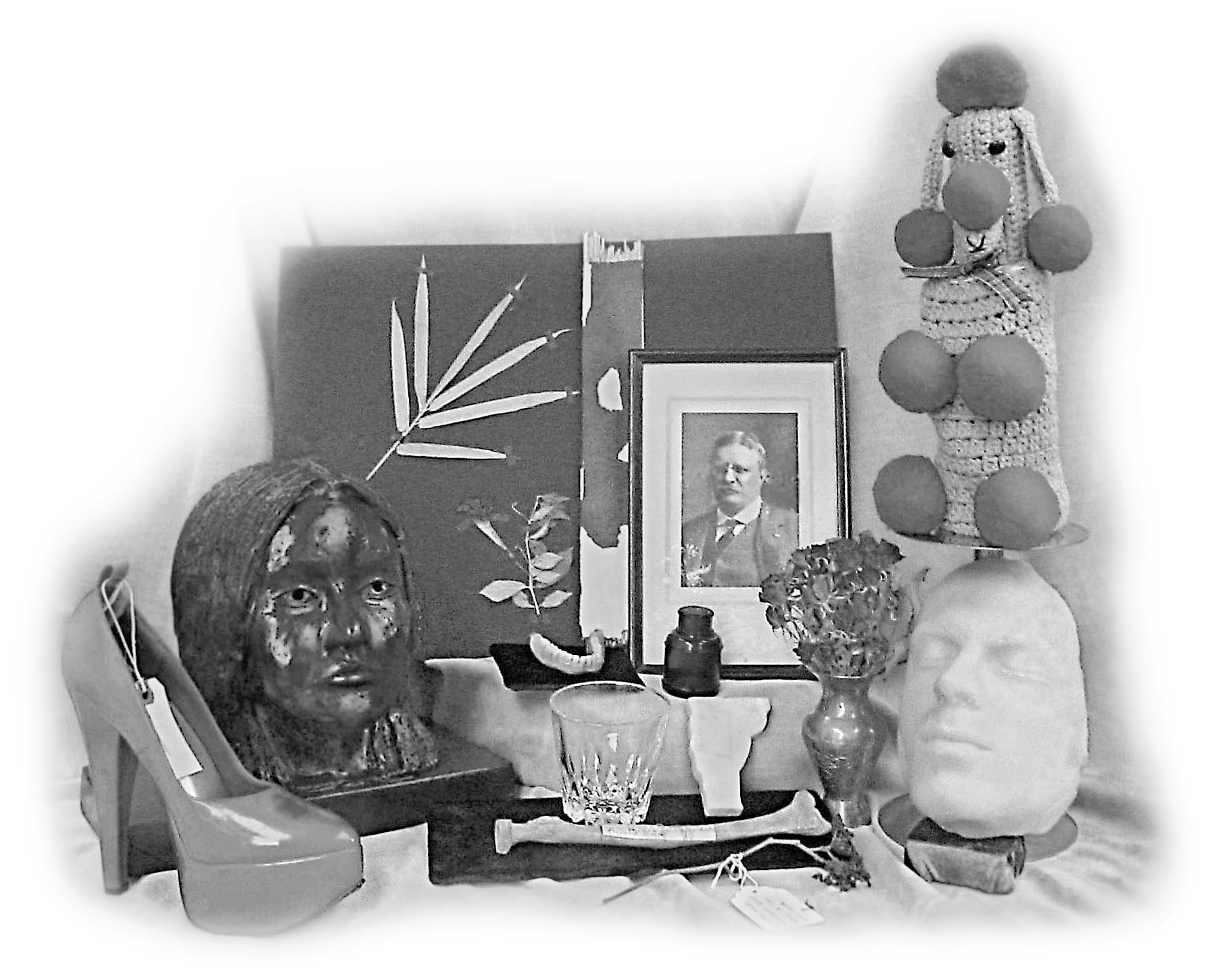 Selected items from the Main Street Museum in a collections group